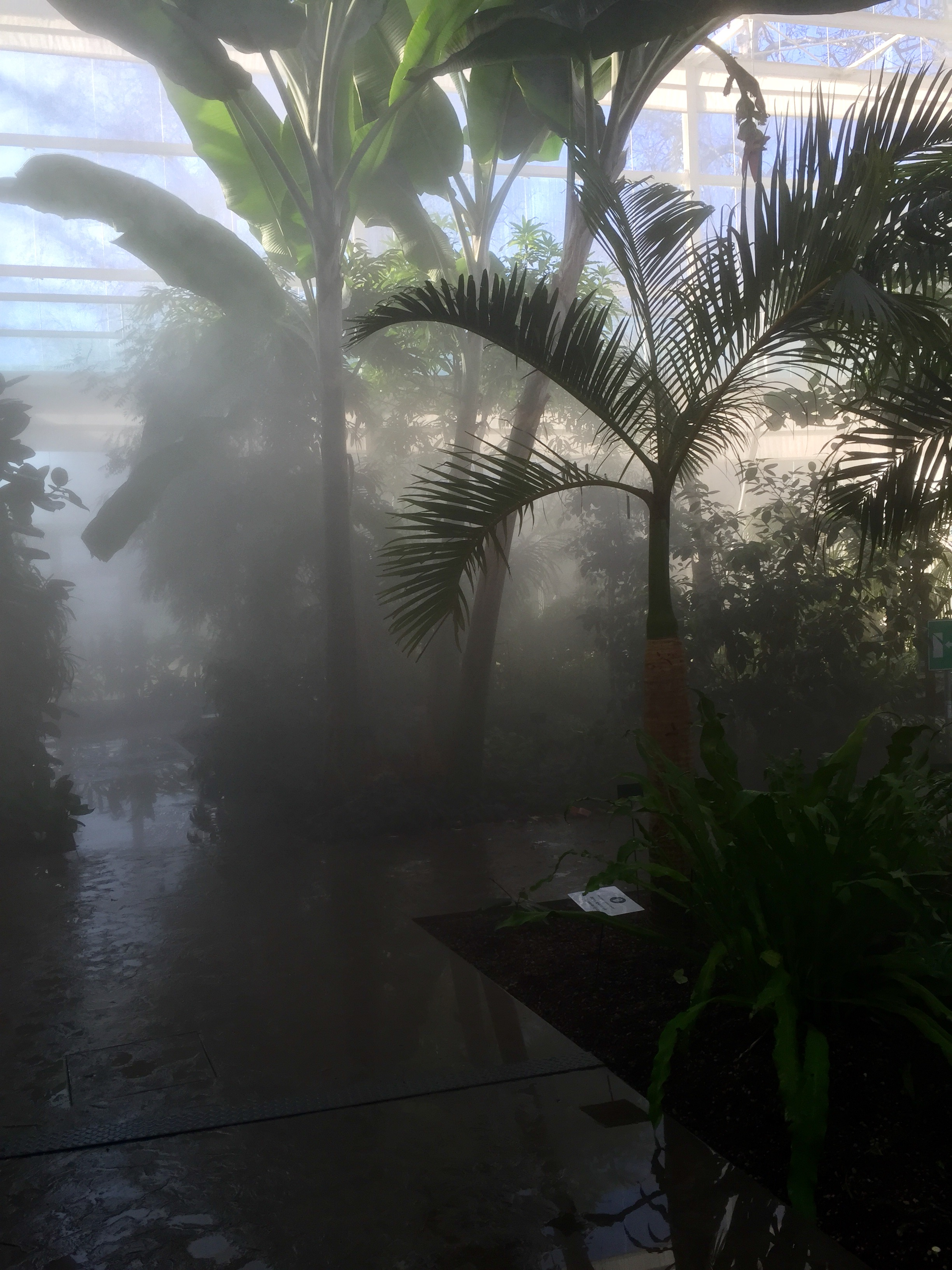 Giardino della Biodiversità, Area Tropicale